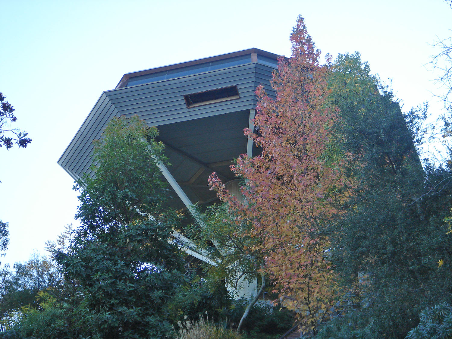 Architecture was my theme today: John Lautner designed this famous building in 1960. It's overlooking San Fernando Valley, close to Mulholland Drive.